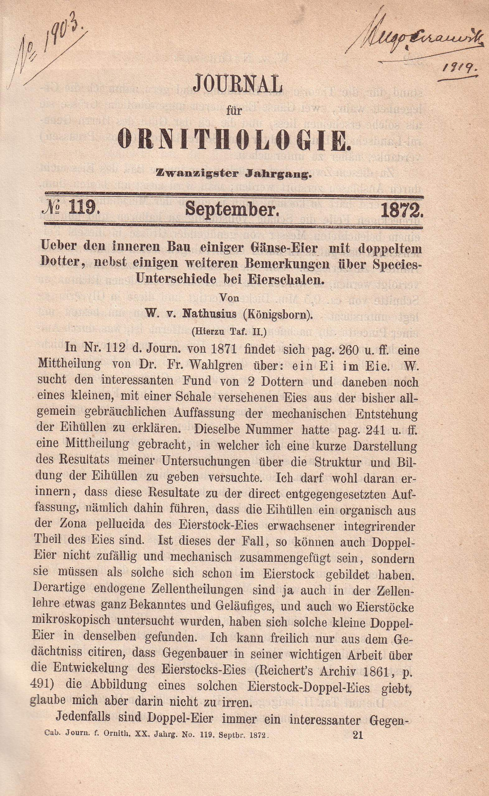 cover of booklet from 1872